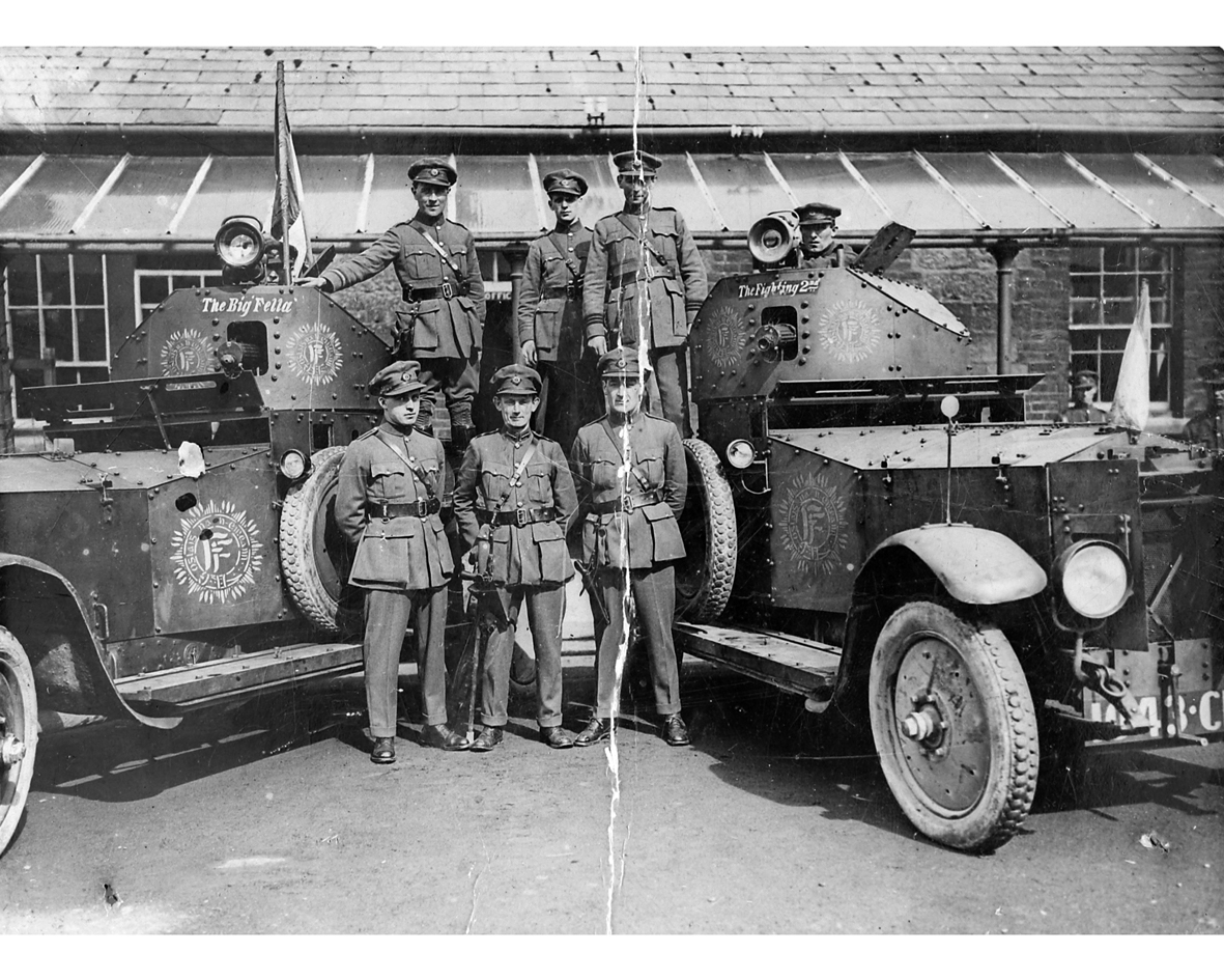 2 of 13 armoured cars given by the British government to the National Army during the Irish Civil War. They were built on a Rolls-Royce chassis, and were armed with a .303 Vickers machine gun. The Fighting 2nd still shows 1043 CK, its British registration. Like the rest of these cars, it was later given an ARR (Armoured Rolls-Royce) no. by the National Army, in this case ARR3, while The Big Fella was designated ARR8. Read down through the comments below for great information on armoured cars from guliolopez and vintary... Thanks to Rekt-PNK for identifying General Frank Thornton at the right of the front row. He is coming back to us with more information, but his contribution is useful in dating this photo. General (or Commandant) Frank Thornton was very badly wounded in an ambush in Kilkenny on 22 August 1922, so the photo must have been taken before August. If we add this to vintary's belief (though I'll have to check) that this photo appeared in the Cork Examiner on 10 July 1922, then we should be able to date this photo very accurately... Date: 1922 NLI Ref.: HOG65